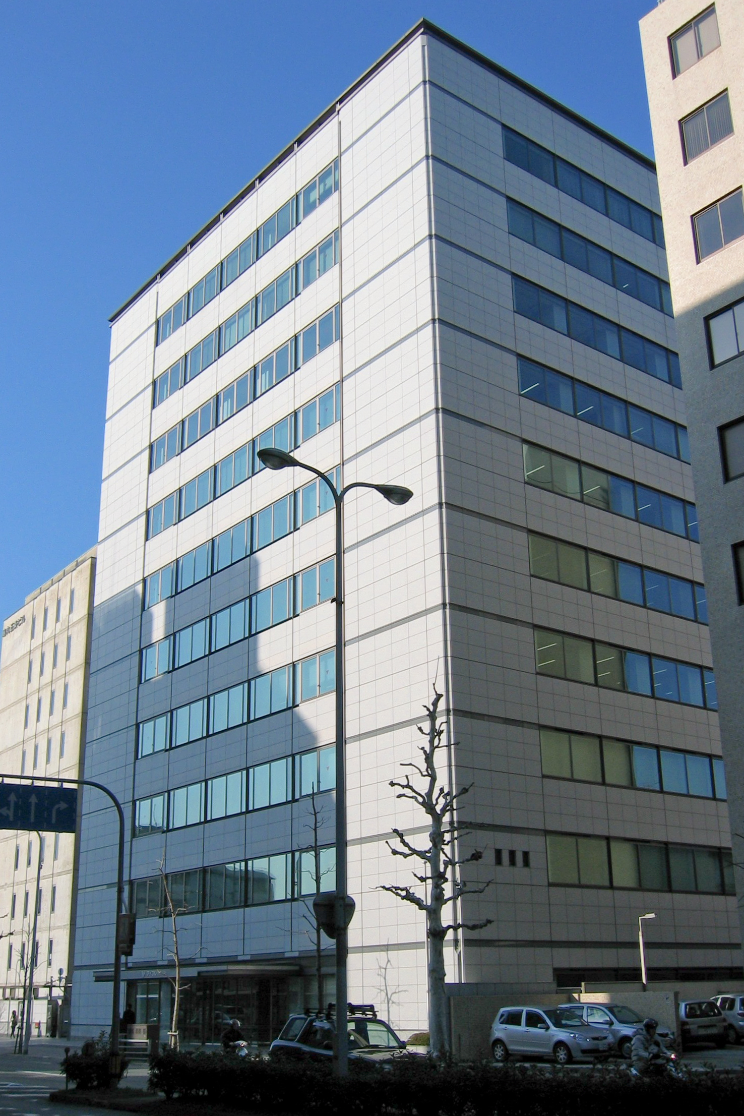 Photograph of Aiful Headquarters Building, Kyoto head office of Aiful Corporation, in Shimogyo-ku, Kyoto, Kyoto Prefecture, Japan.